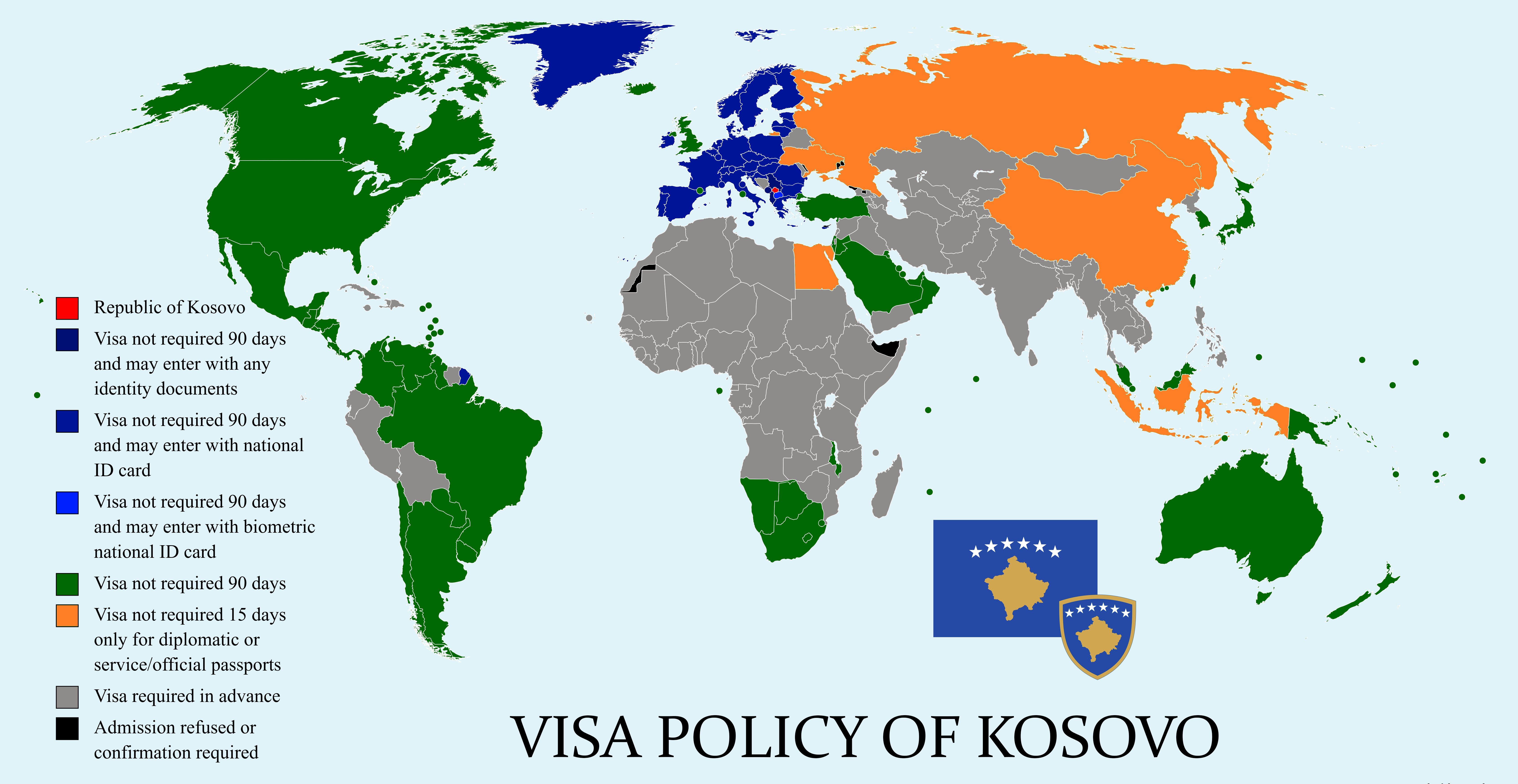 The Visa policy of Kosovo put on the map